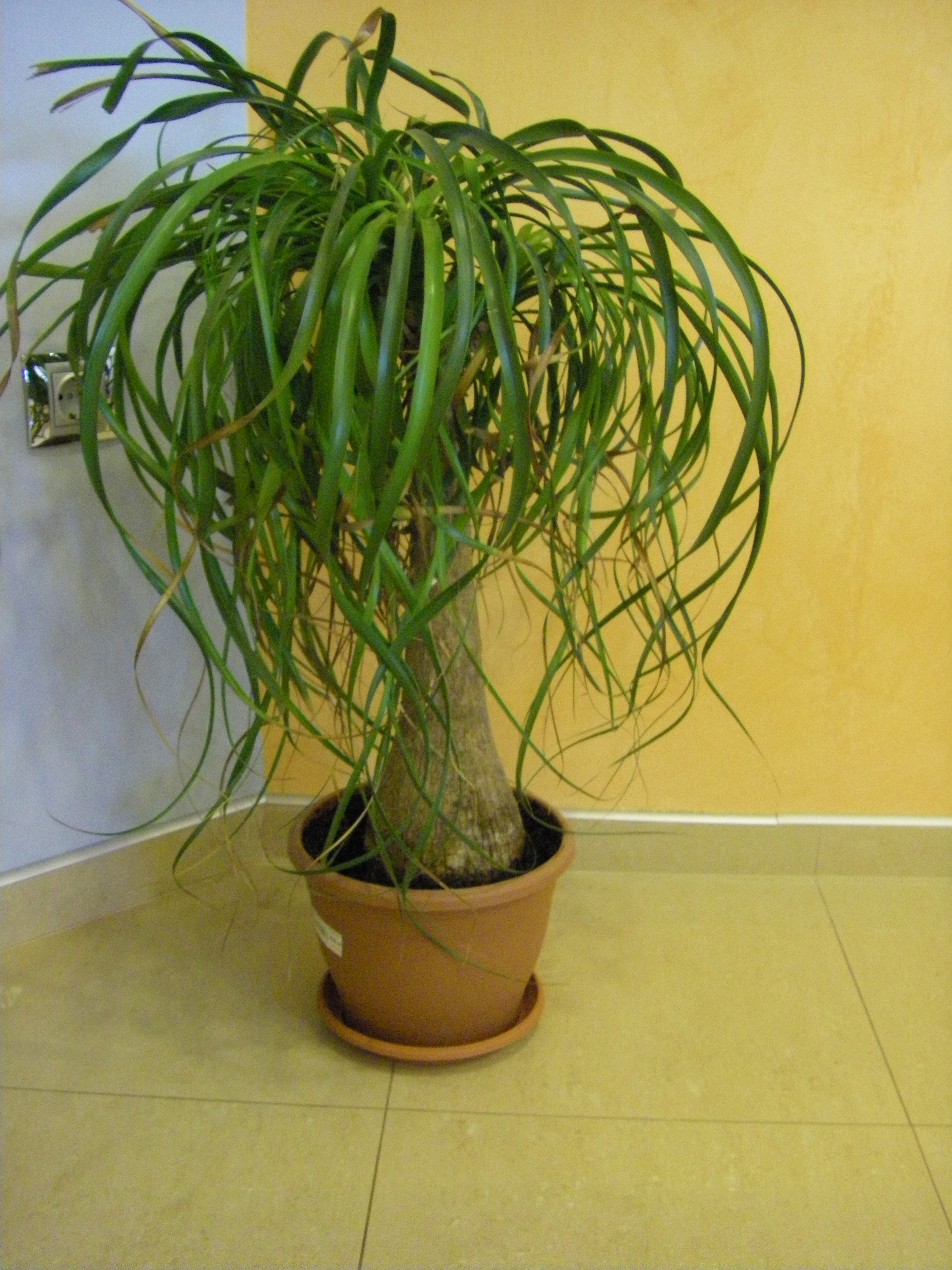 а plant Nolina